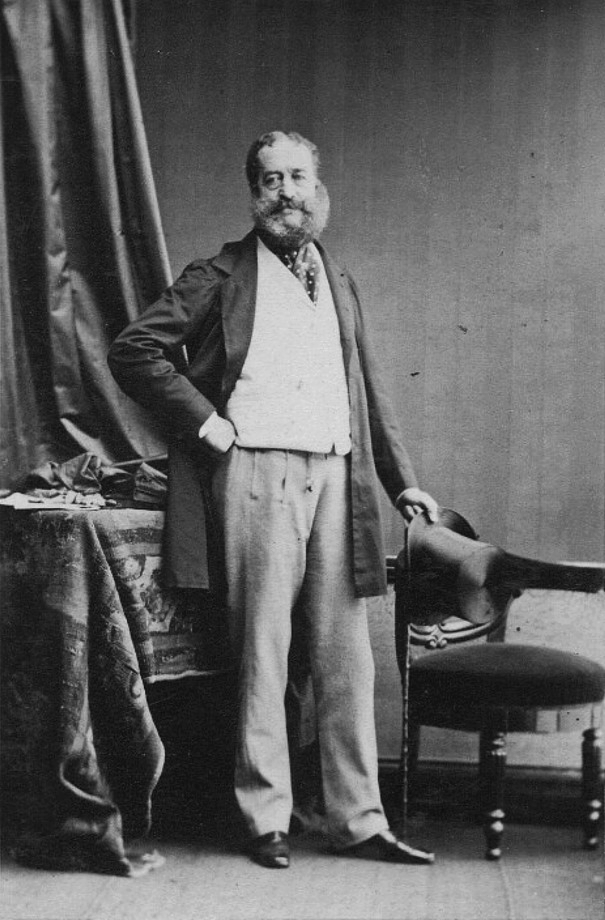 Henry Paget, 2nd Marquess of Anglesey